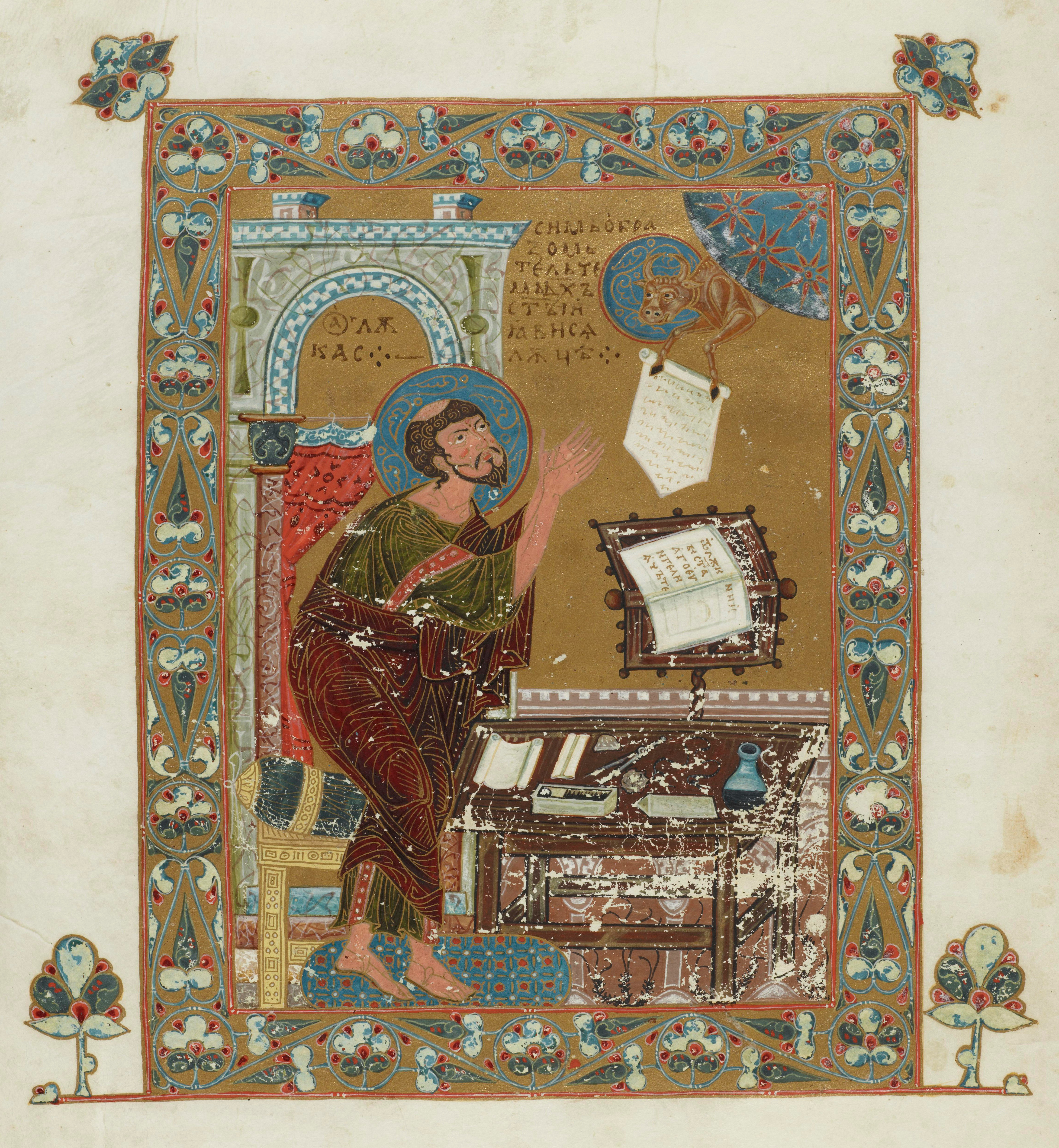 St. Luke miniature from Ostromir Gospels. At the top: "In this calf image, the Holy Spirit appeared to Luka". At the book: "Reading of gospel from St. Luka".